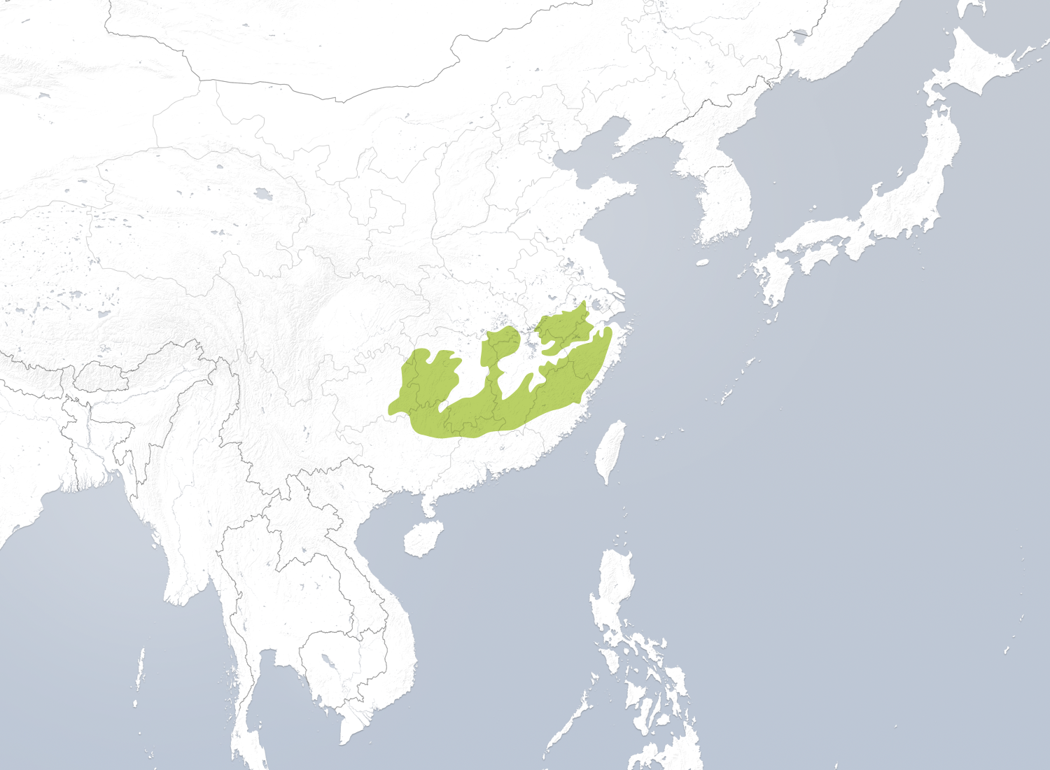 Distribution of Elliot’s Pheasant (Syrmaticus ellioti)